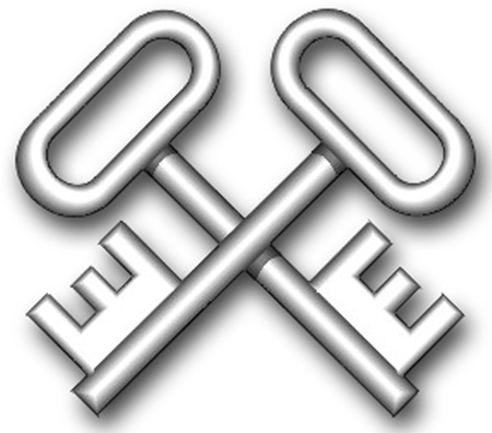 US Navy Storekeeper (SK). Crossed keys, stems down, webs outward.